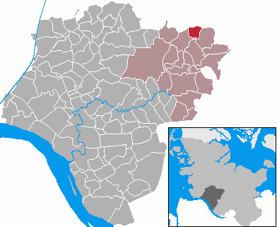 This map shows the area of the municipality Wiedenborstel in the Kreis (district) Steinburg, Schleswig-Holstein, Germany.